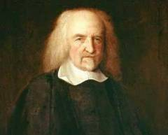 Томас Гоббс